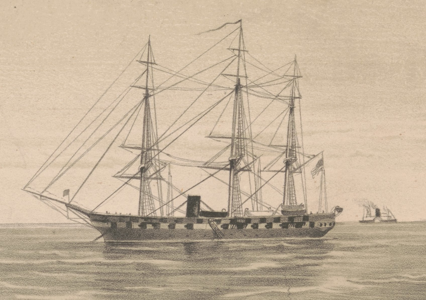 Title: U.S. Naval review at Hampton-Roads VA. Lithograph after a drawing by Joseph L. Jones, circa 1877-1880 depicting a Naval Review in Hampton-Roads, VA. dedicated to Secretary of the Navy Richard W. Thompson. Ships present include (from left): USS Marion, USS Tallapoosa (flying the Secretary of the Navy's Flag), USS Constitution, USS Kearsarge, USS Saratoga, USS Powhatan, USS Portsmouth and USS Minnesota. Abstract/medium: 1 print.